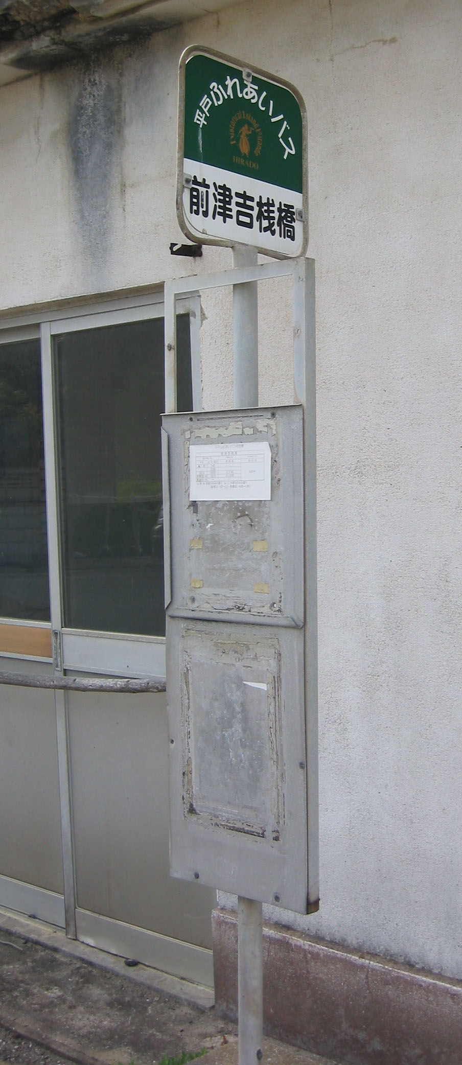 Hirado Fureai Bus Maetsuyoshi-sanbashi (Maetsuyoshi Pier) Bus Stop in Hirado City, Nagasaki Prefecture, Japan